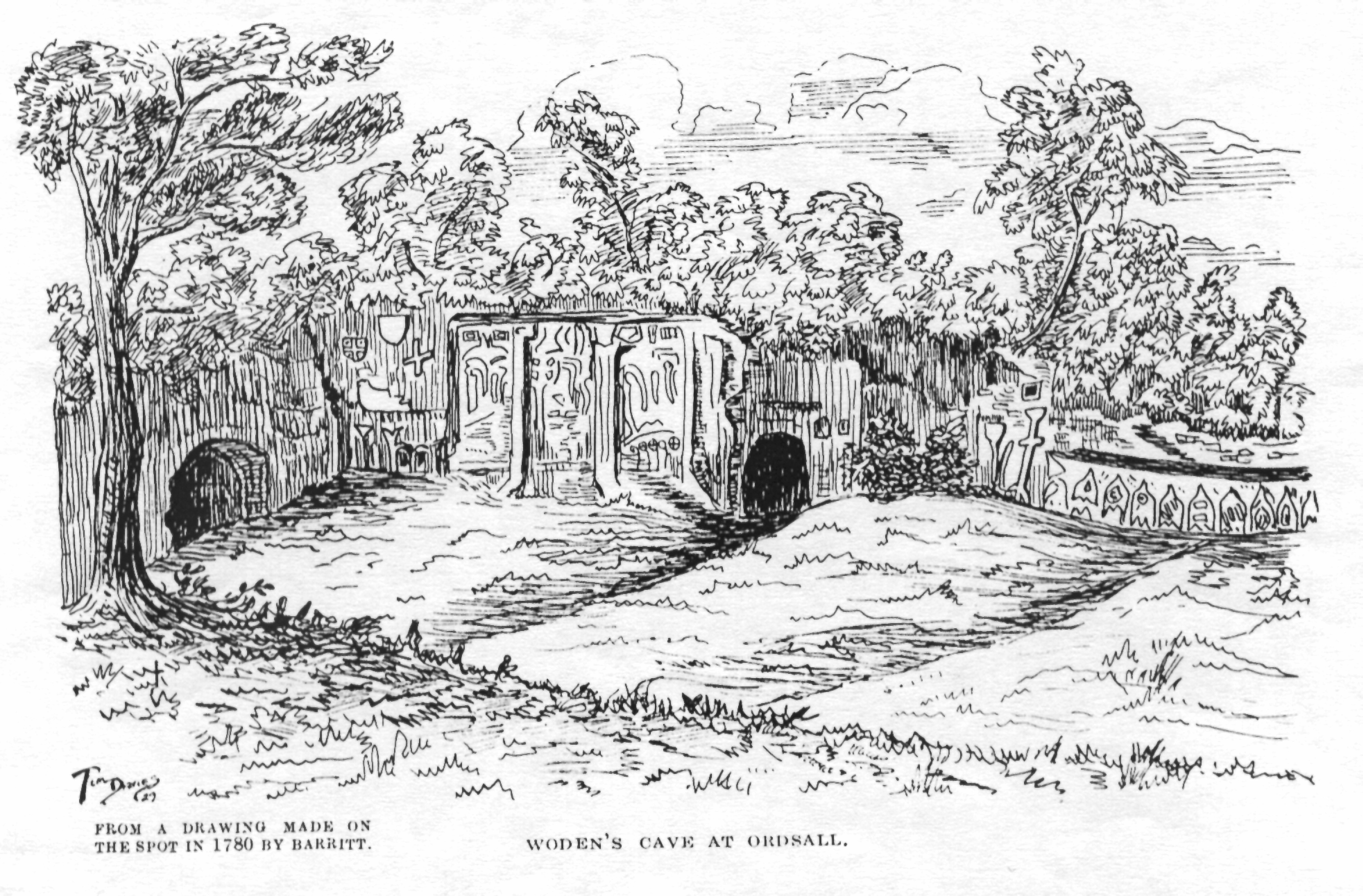 Woden's Den in Ordsall, Salford sketched in 1780 by Thomas Barret. Completely destroyed in the early 19th Century